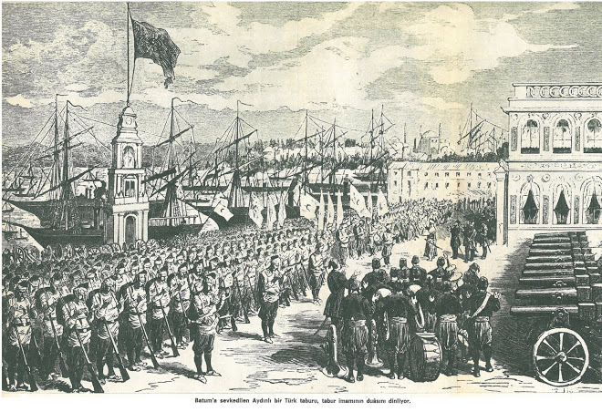 Ottoman troops in Batum (19th century engraving)